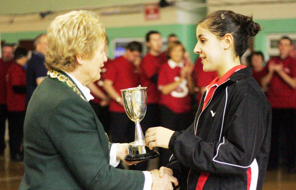 2014 & 2015 World Champion Carolina Marin winning her first senior title in Dublin 2009 (photo: Mark Phelan)